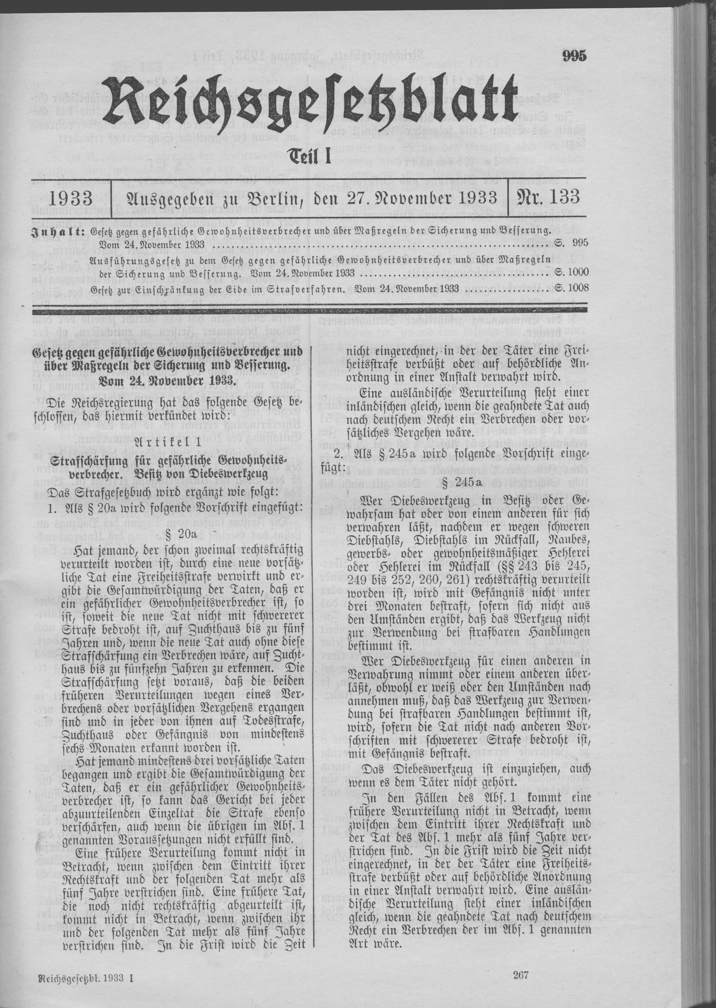 Scan from the Imperial Law Gazette of Germany, 1933, part 1